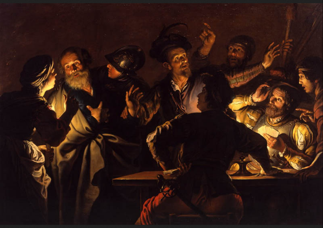 The Denial of Saint Peter